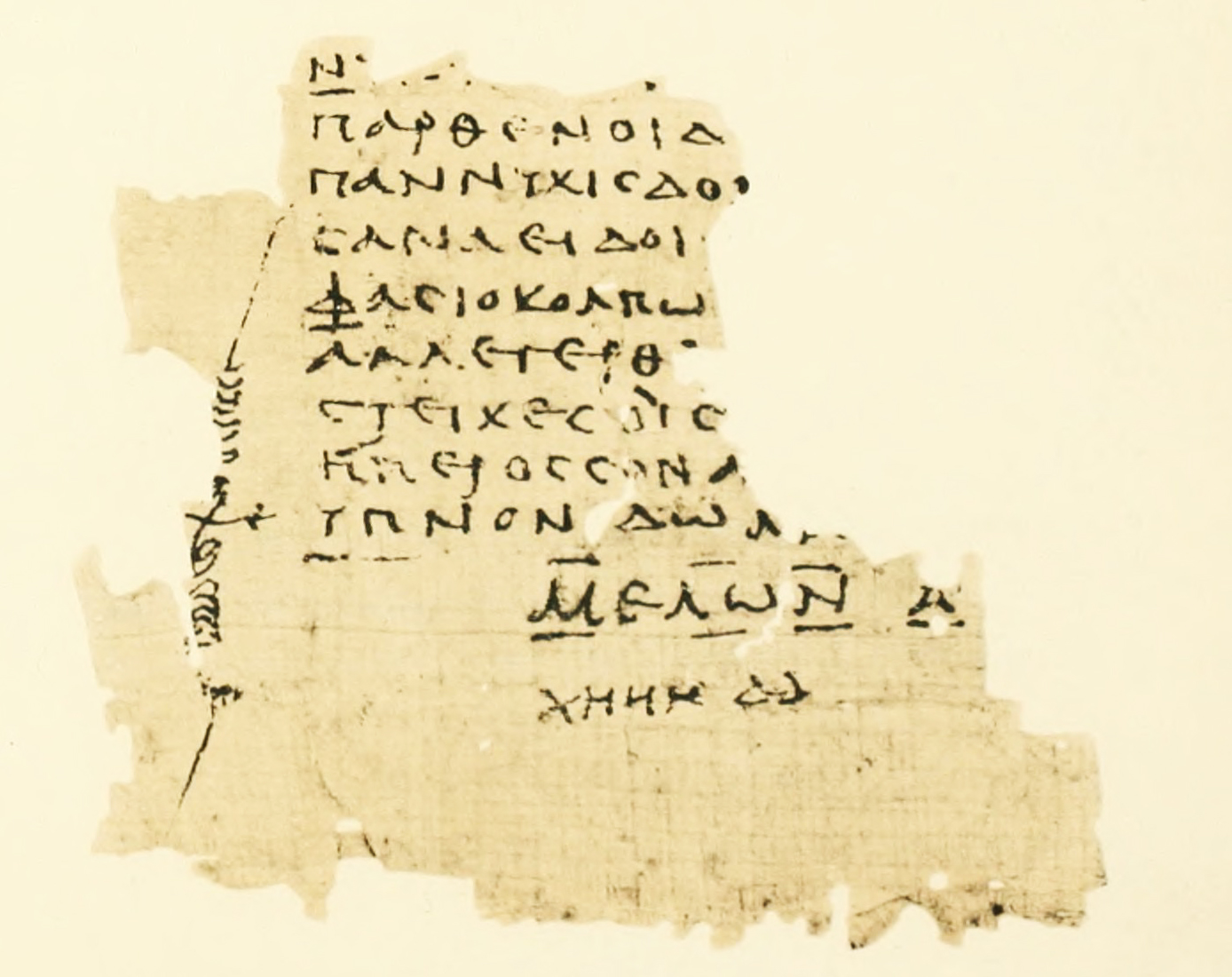 A second century CE Sappho papyrus showing the end of the first book of her collected poems